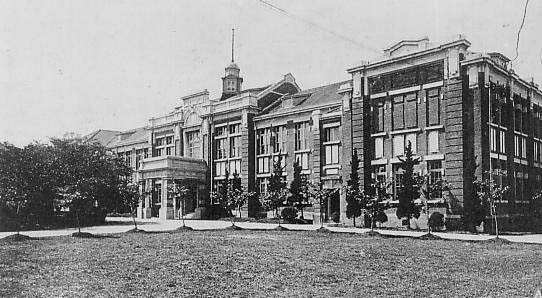 Toa Dobun Shoin College Hongqiao Road Campus